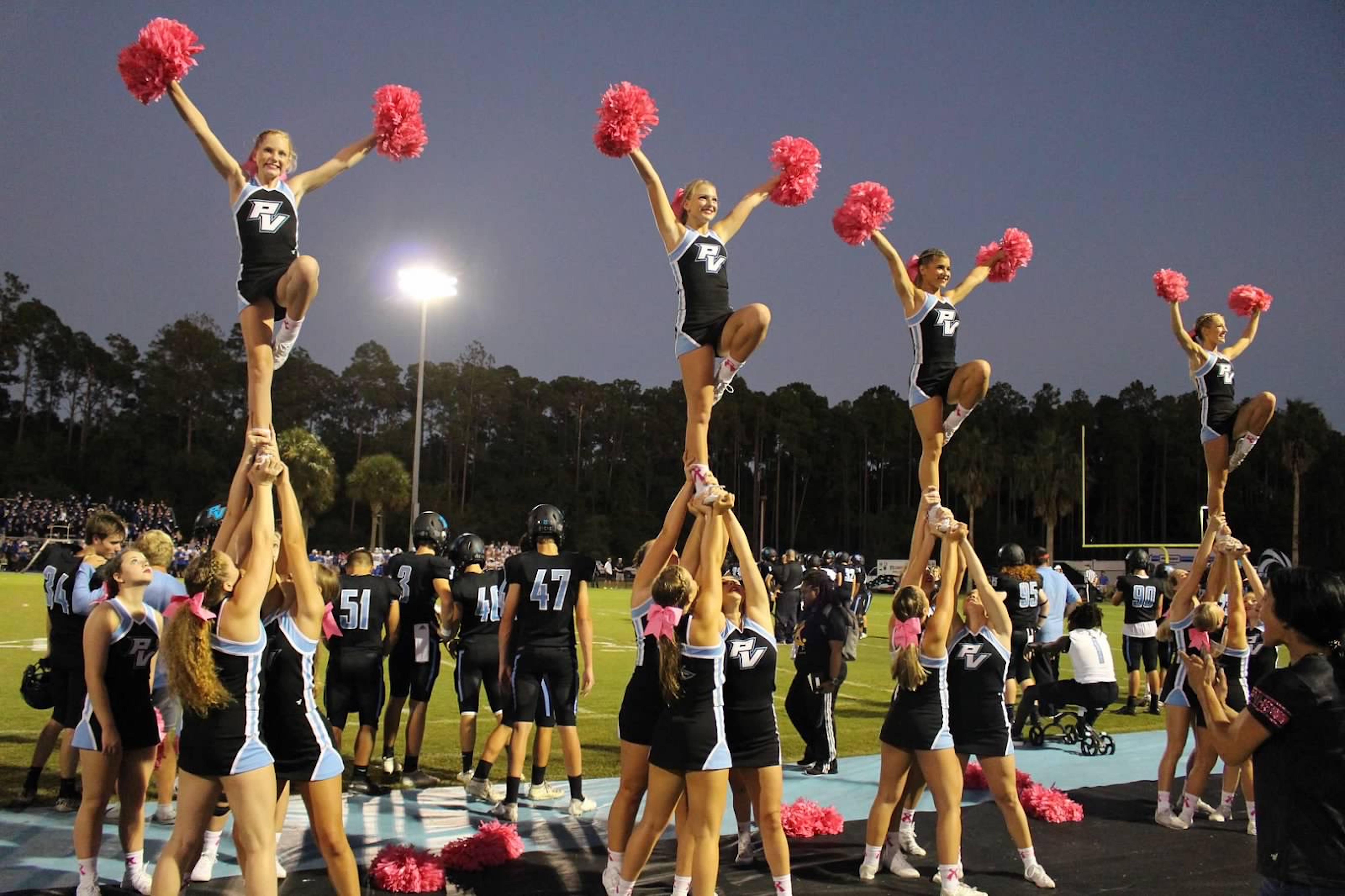 Ponte Vedra Cheerleading: Liberty Stunt